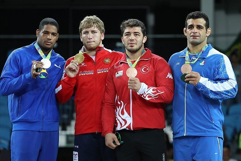 RIO DE JANEIRO (Tasnim) - Iranian wrestler Ghasem Rezaei defeated Sweden's Carl Fredrik Stefan Schoen early on Wednesday to win the bronze medal in the Men's Greco-Roman 98kg category at the Rio games.